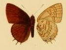 TransEntSocLond1910Plate1 Explanation of Plate I. Anthene indefinita male